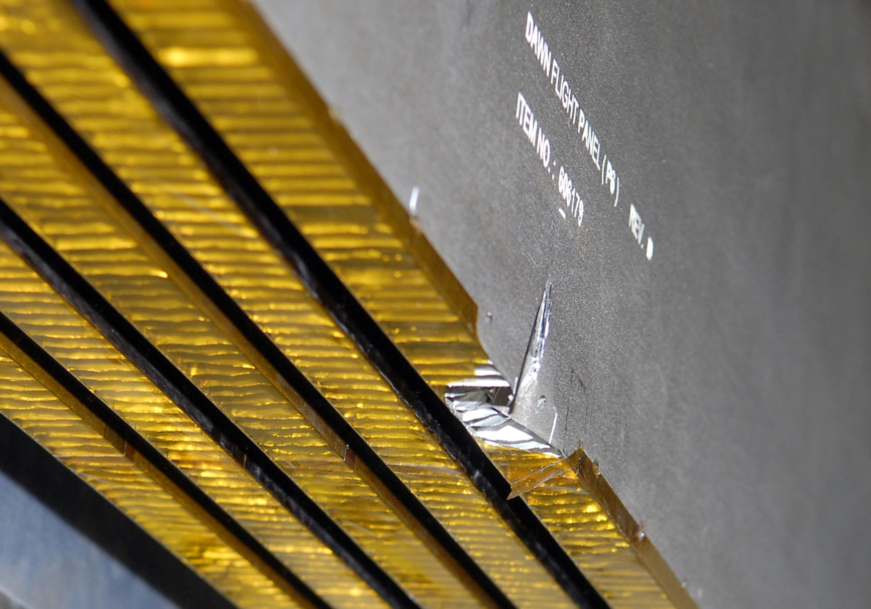 The damage at the backside of one sun array panel.